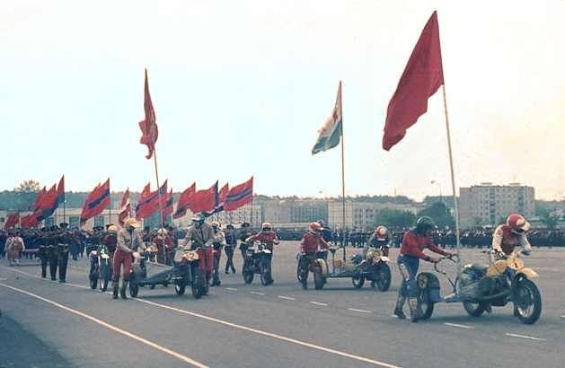 9th May celebration in 1984